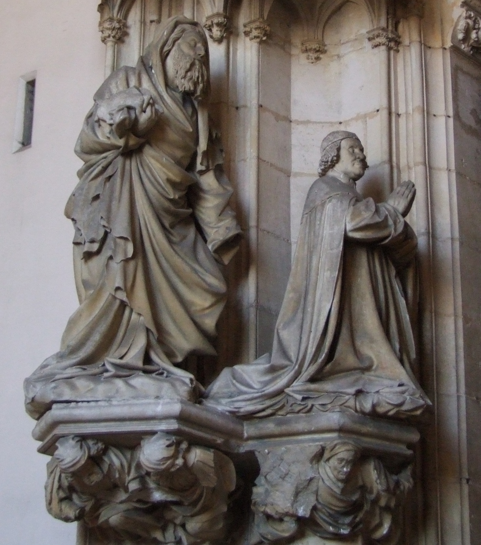 Dijon, Burgundy, FRANCE